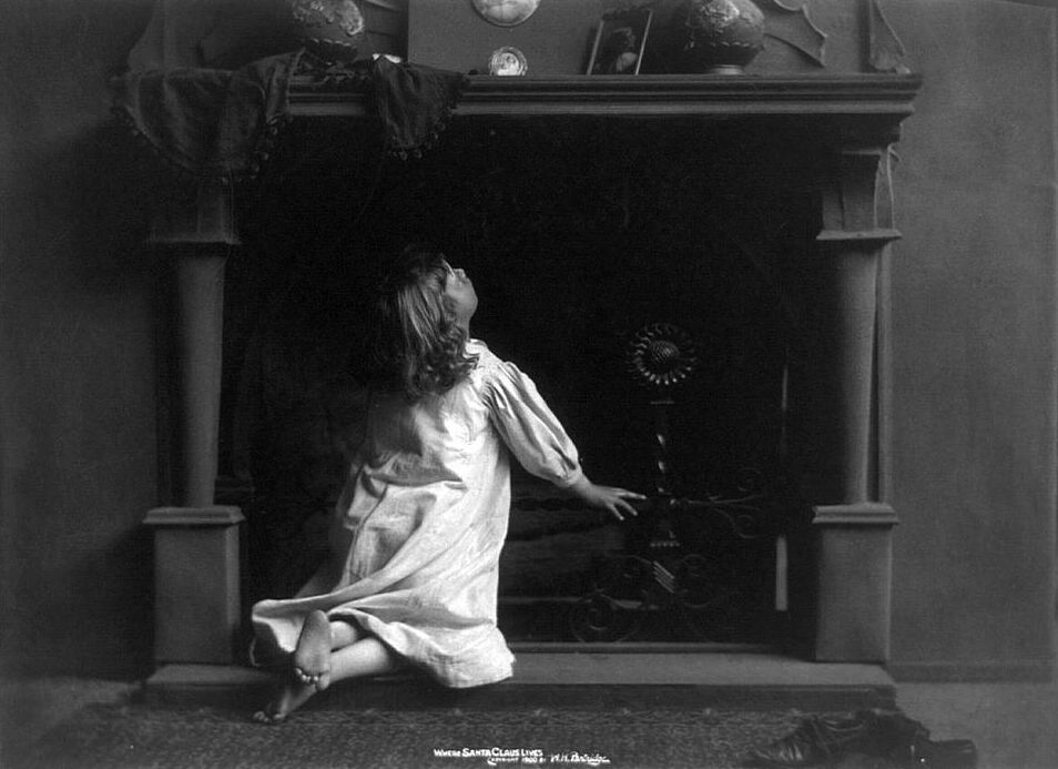 Girl looking up chimney from fireplace.